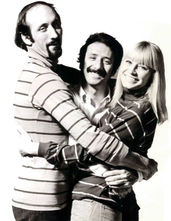 Promotional photo of Peter, Paul and Mary.